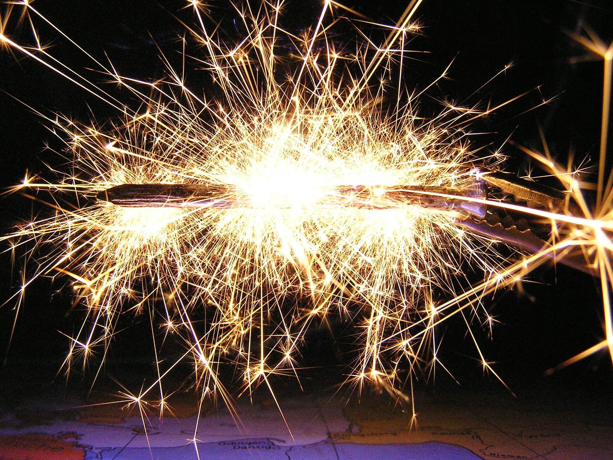 Short circuit with 12 V and 20 A with two nails. There are yellow sparks and violet sparks (the violett ones can be seen in a reflection right of the nail).